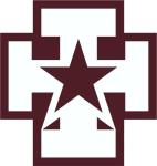 Shoulder Sleeve Insignia of the 139th Medical Brigade (United States)